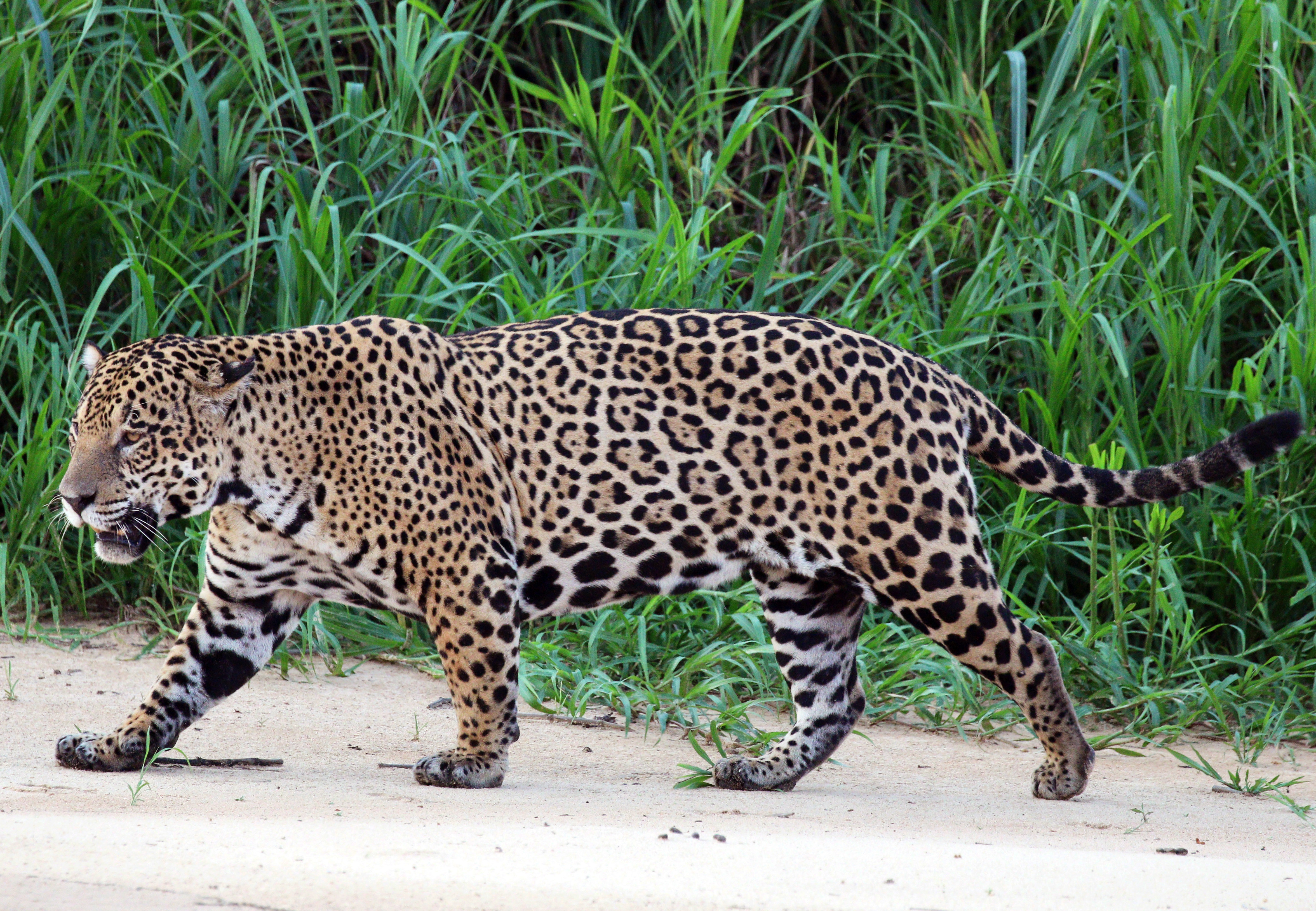 Jaguar (Panthera onca palustris) male, Three Brothers River, the Pantanal, Brazil